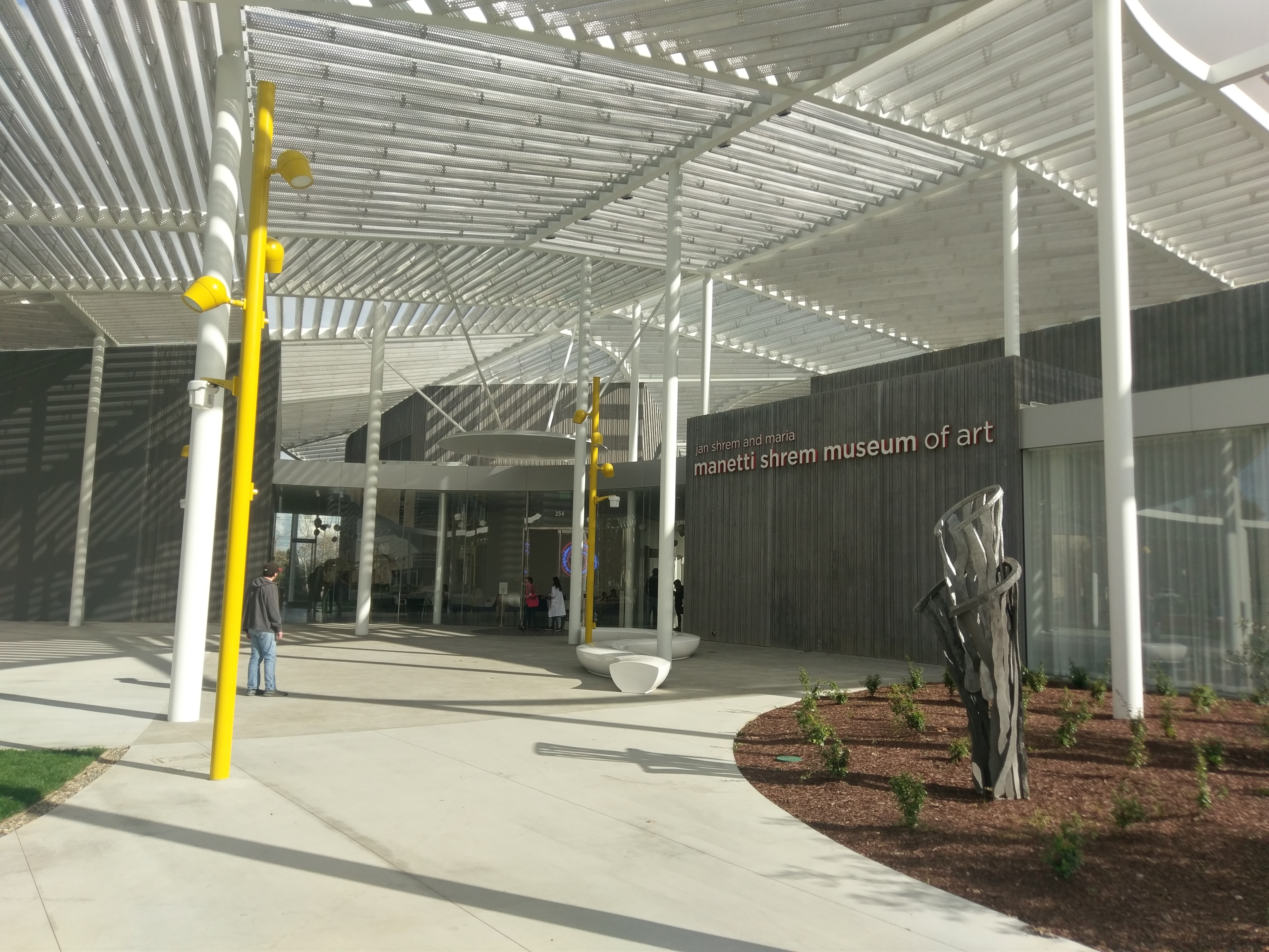 Located at UC Davis. Photo by Jim Heaphy.